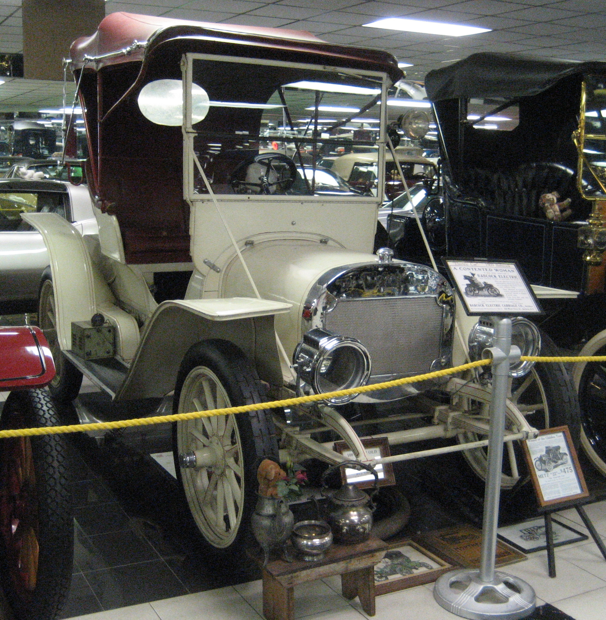 1909 Babcock Electric automobile on display at Tallahassee Automobile Museum.